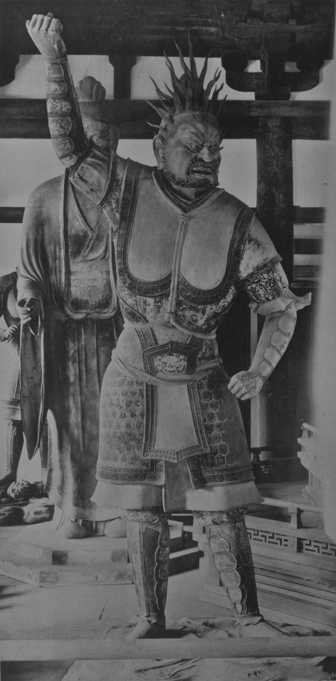 Agyō from the Kongōrikishi, Hokkedō, Todaiji, Nara, Japan; the sculpture in the background is Bonten; both are National Treasures of Japan